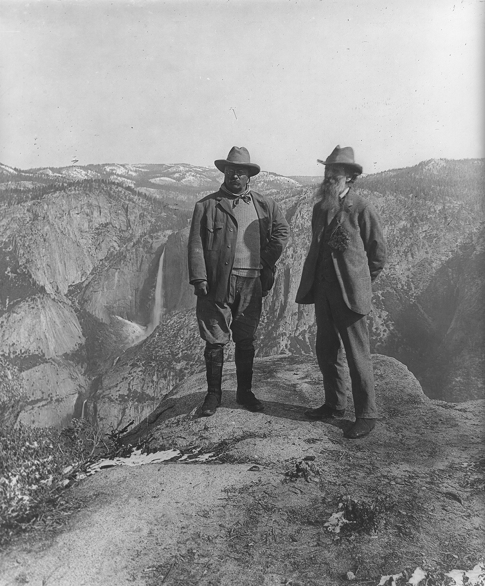 U.S. President Theodore Roosevelt (left) and nature preservationist John Muir, founder of the Sierra Club, on Glacier Point in Yosemite National Park. In the background: Upper and lower Yosemite Falls.